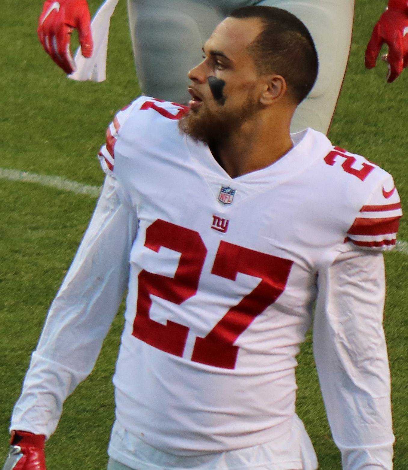 Darian Thompson, a player on the National Football League.